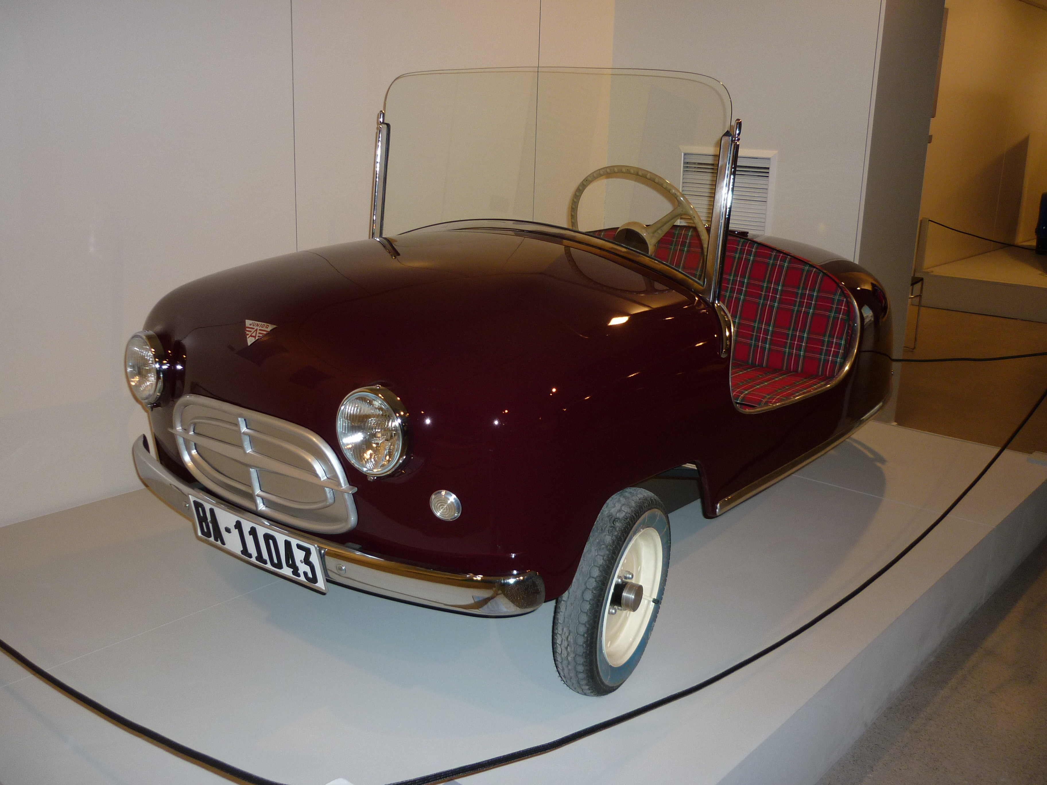 Junior 2a Sèrie (1956), made in Barcelona (Catalonia)